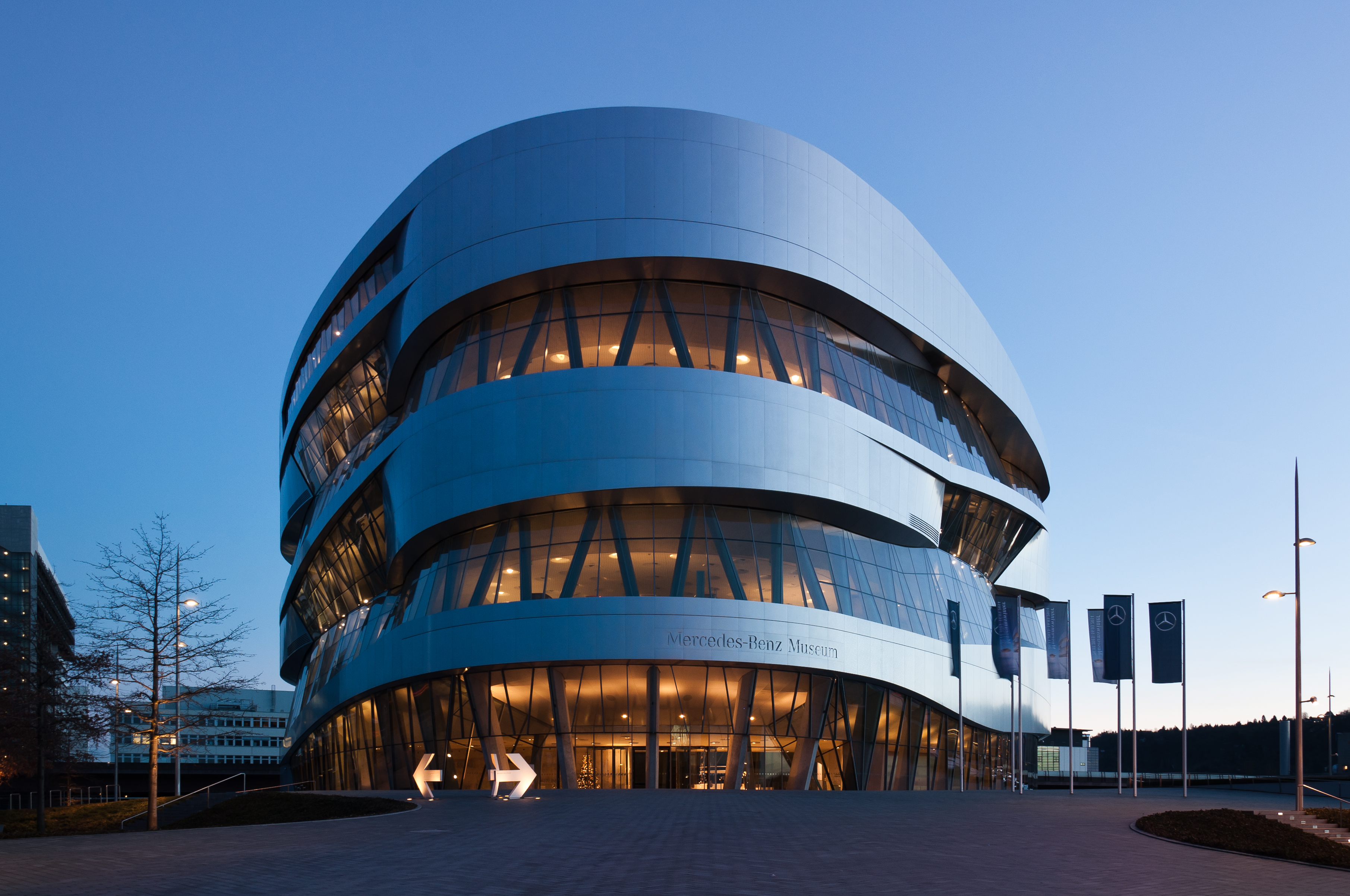 Mercedes-Benz Museum in Stuttgart, Germany, shortly after sunset.